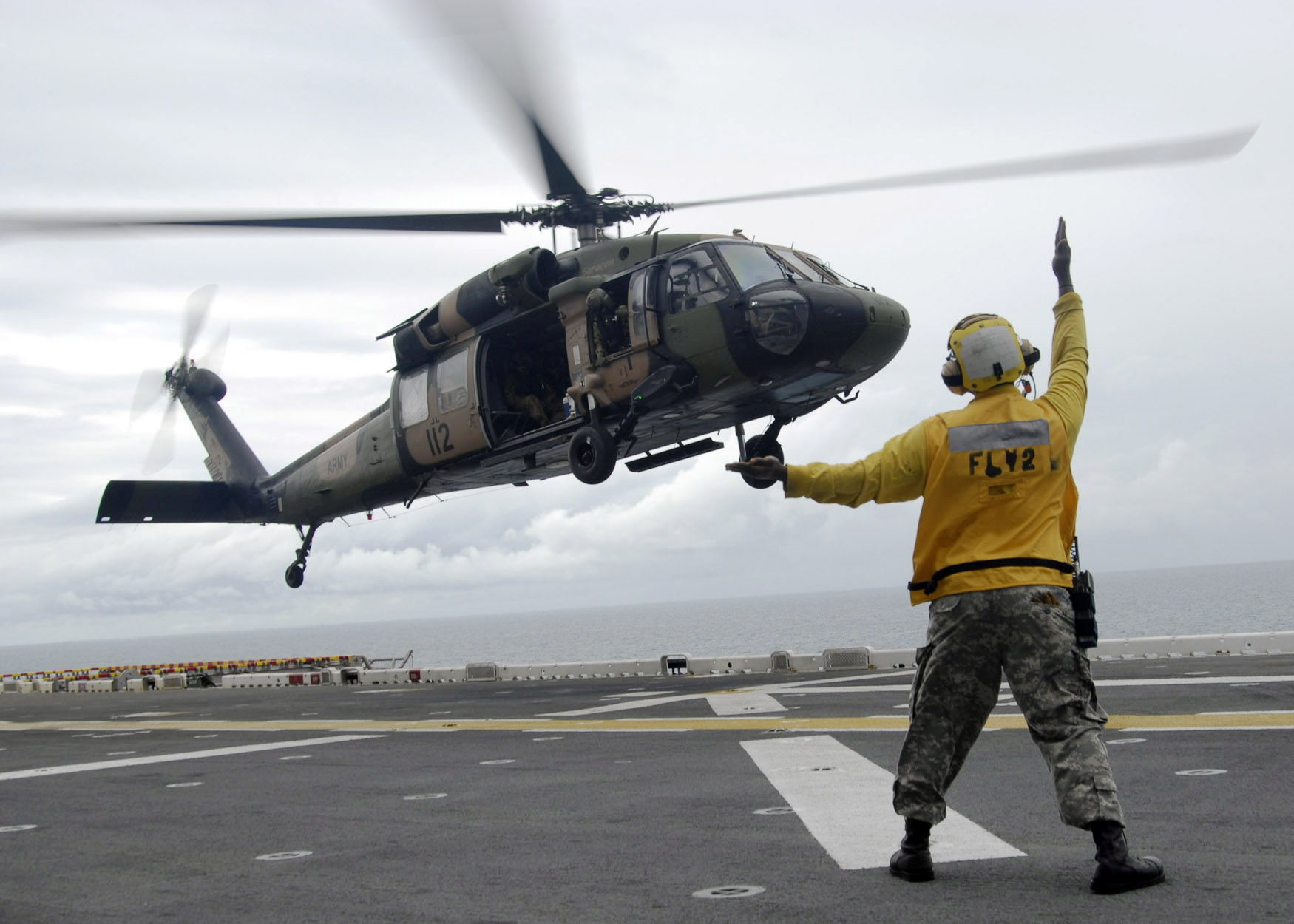 CORAL SEA (July 8, 2009) Aviation Boatswain's Mate (Handling) 3rd Class Mario Teasley directs a landing S-70 Black Hawk helicopter assigned to the Royal Australian Army during a deck landing qualification exercise aboard the forward-deployed amphibious assault ship USS Essex (LHD 2). The qualifications were being held in preparation for the upcoming exercise Talisman Saber 2009, a biennial, combined training activity designed to train Australian and U.S. forces in planning and conducting combined operations, which will help improve combat readiness and interoperability. Essex is the lead ship of the only forward-deployed U.S. Amphibious Ready Group and serves as the flagship for CTF 76, the Navy's only forward-deployed amphibious force commander. Task Force 76 is headquartered at White Beach Naval Facility, Okinawa, Japan, with a detachment in Sasebo, Japan. (U.S. Navy photo by Mass Communication Specialist 2nd Class Matthew A. Ebarb/Released)